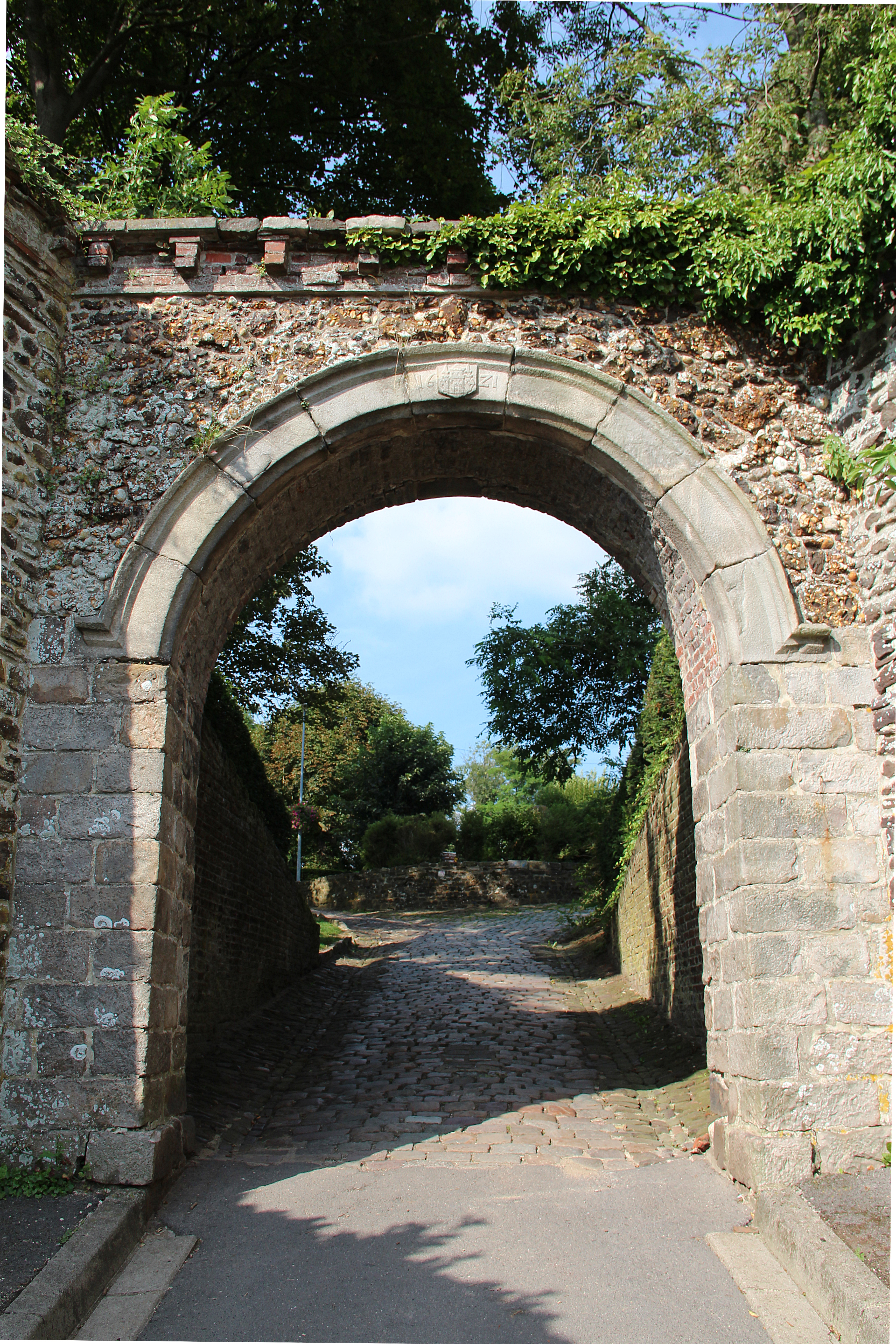 Cassel (département du Nord, France): Porte du Château.